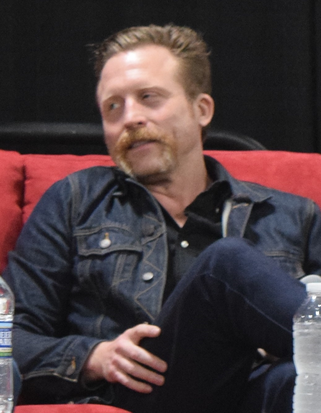 Peter Blomquist at Great Philadelphia Comic-Con 2019.